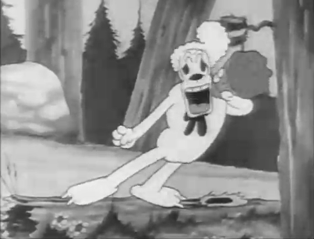 Caricature of Rudy Vallee in the 1932 cartoon